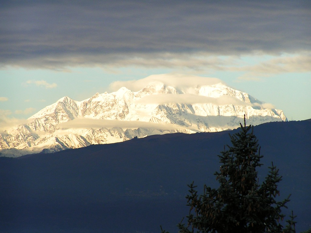 Dufourspitze from east